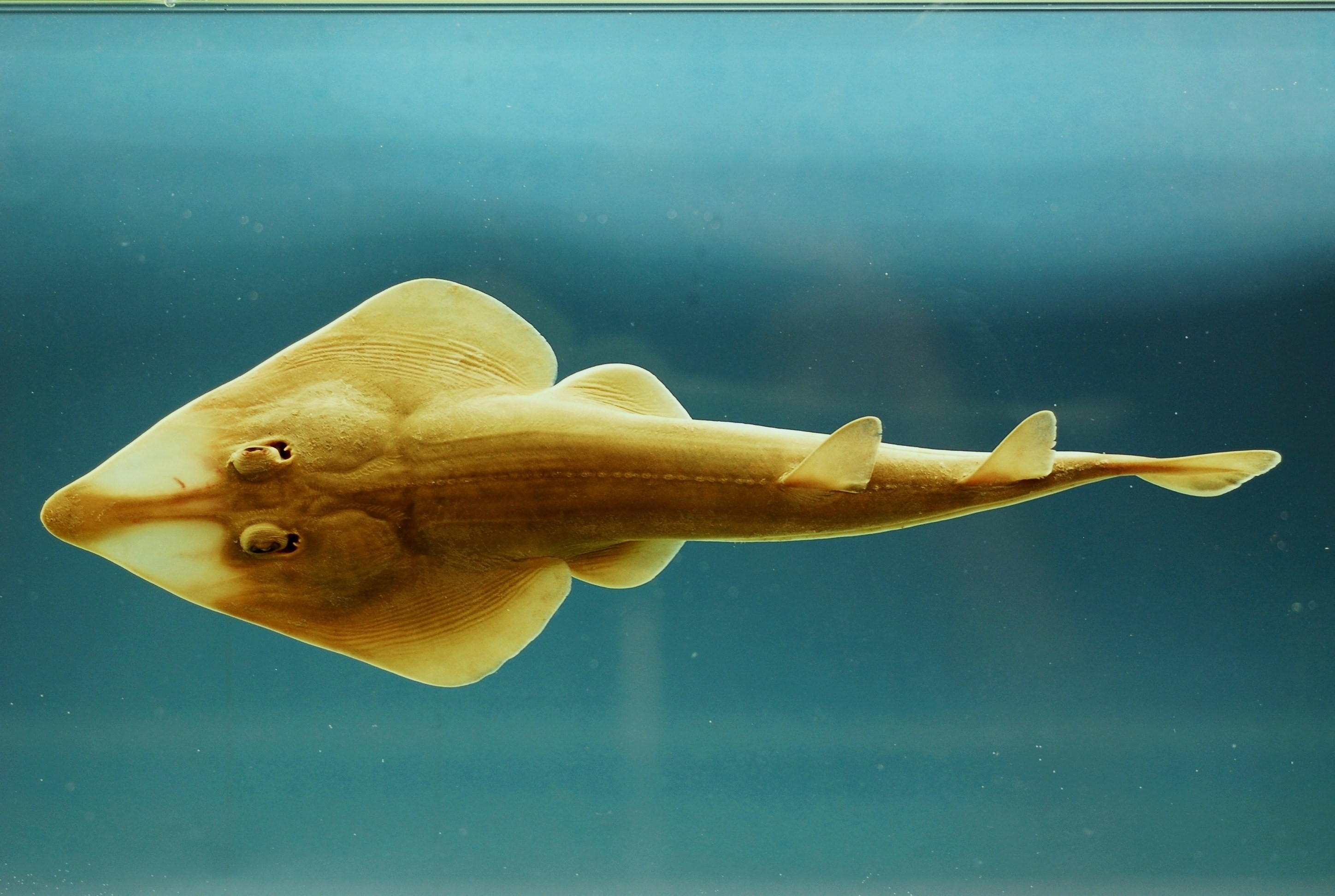 Atlantic guitarfish ( Rhinobatos lentiginosus ). Gulf of Mexico.